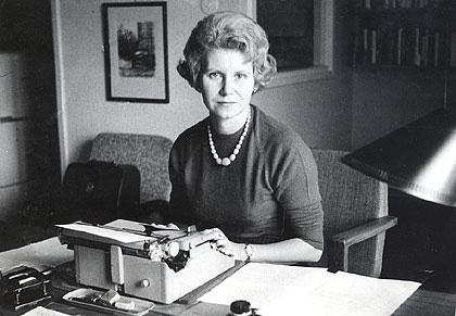 Writer Anu Kaipanen (1933-2009) at her desk in Oulu in 1963. From Kaipanen's own archive.